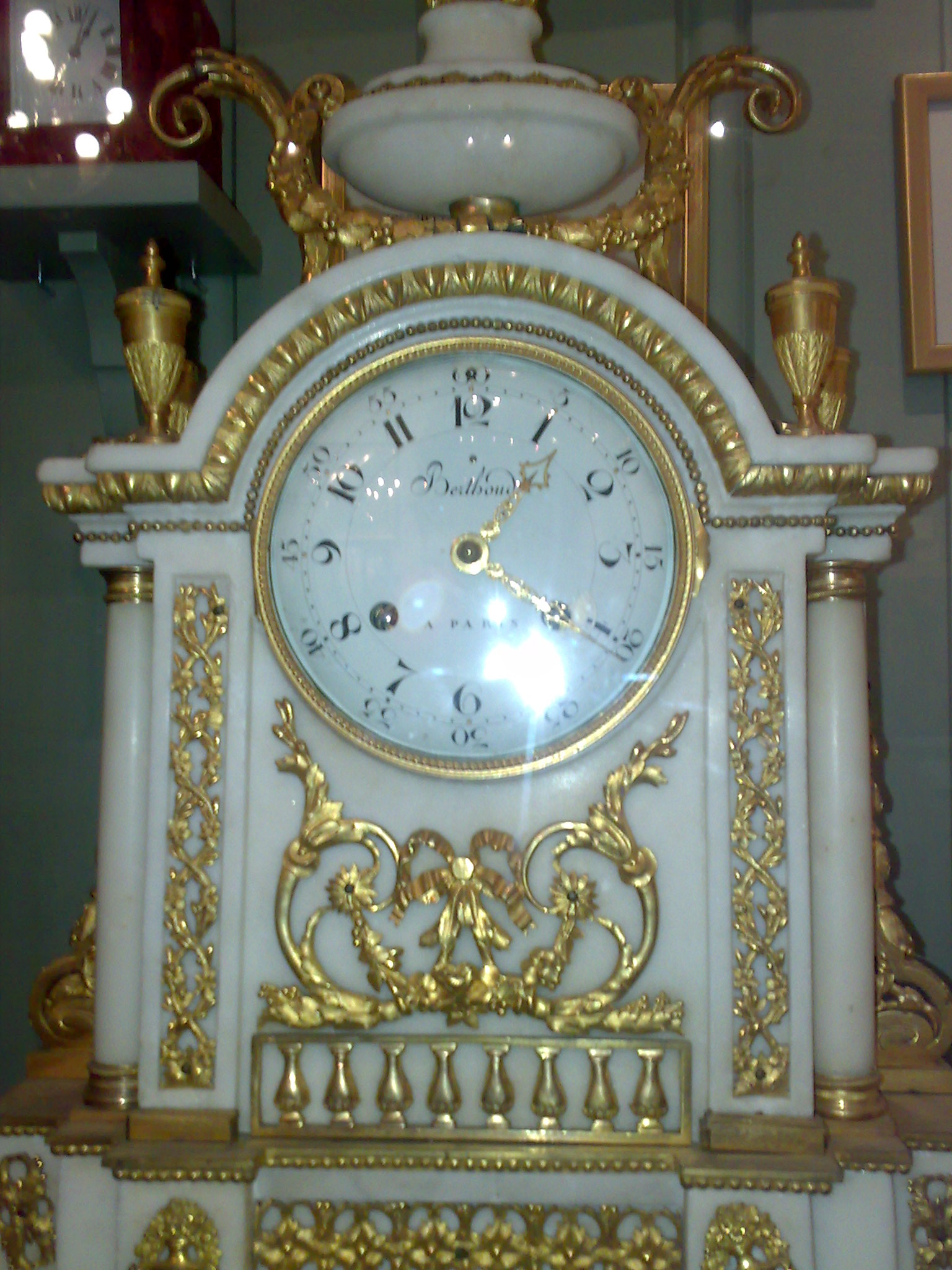 Berthoud table clock, 1780, Paris